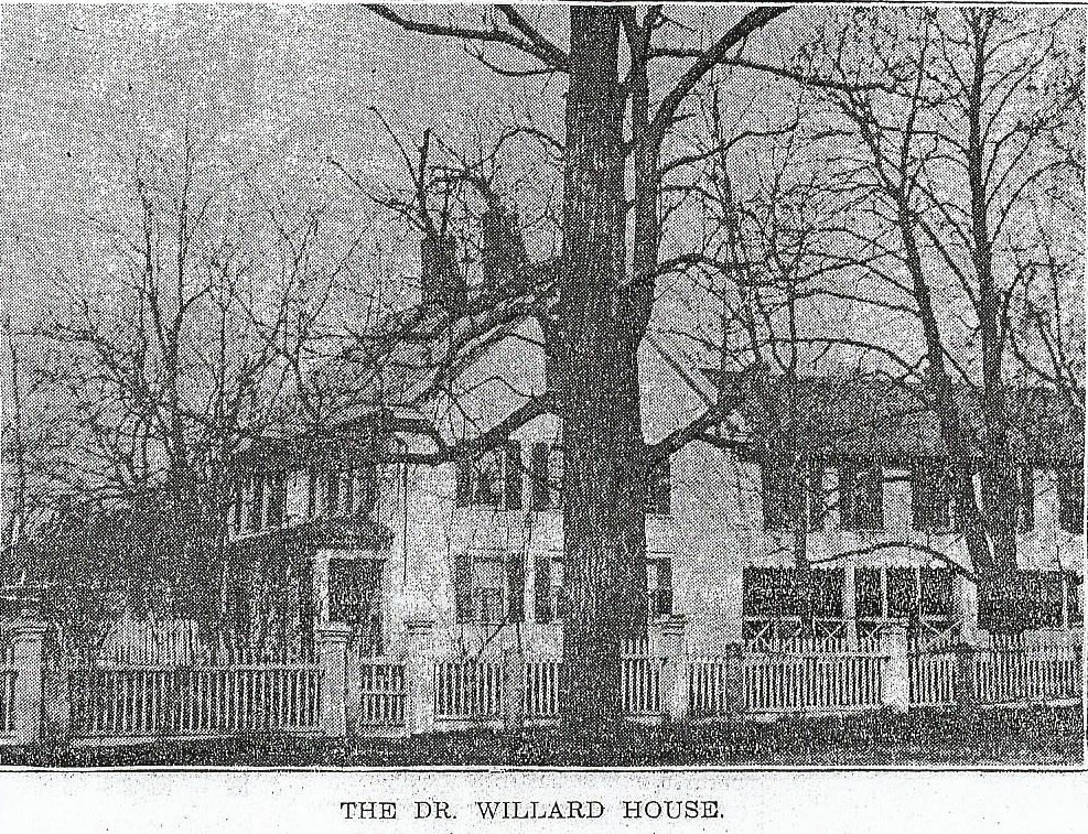 Willard House, Uxbridge Massachusetts 1904.